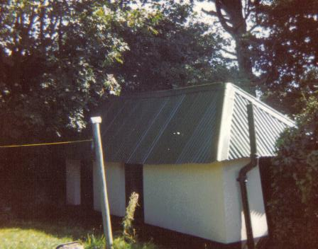 The Old Duckhouse, built of cob and although once thatched, roofed with metal sheeting.